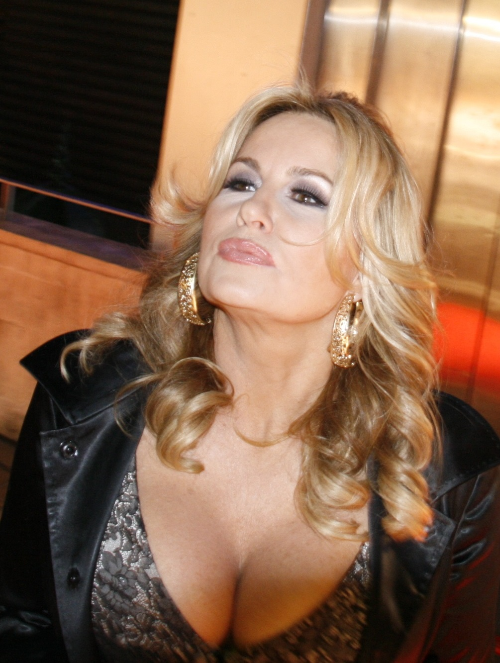 Jennifer Coolidge (Stifler's Mom), American Pie 4 Premiere, Paris, France